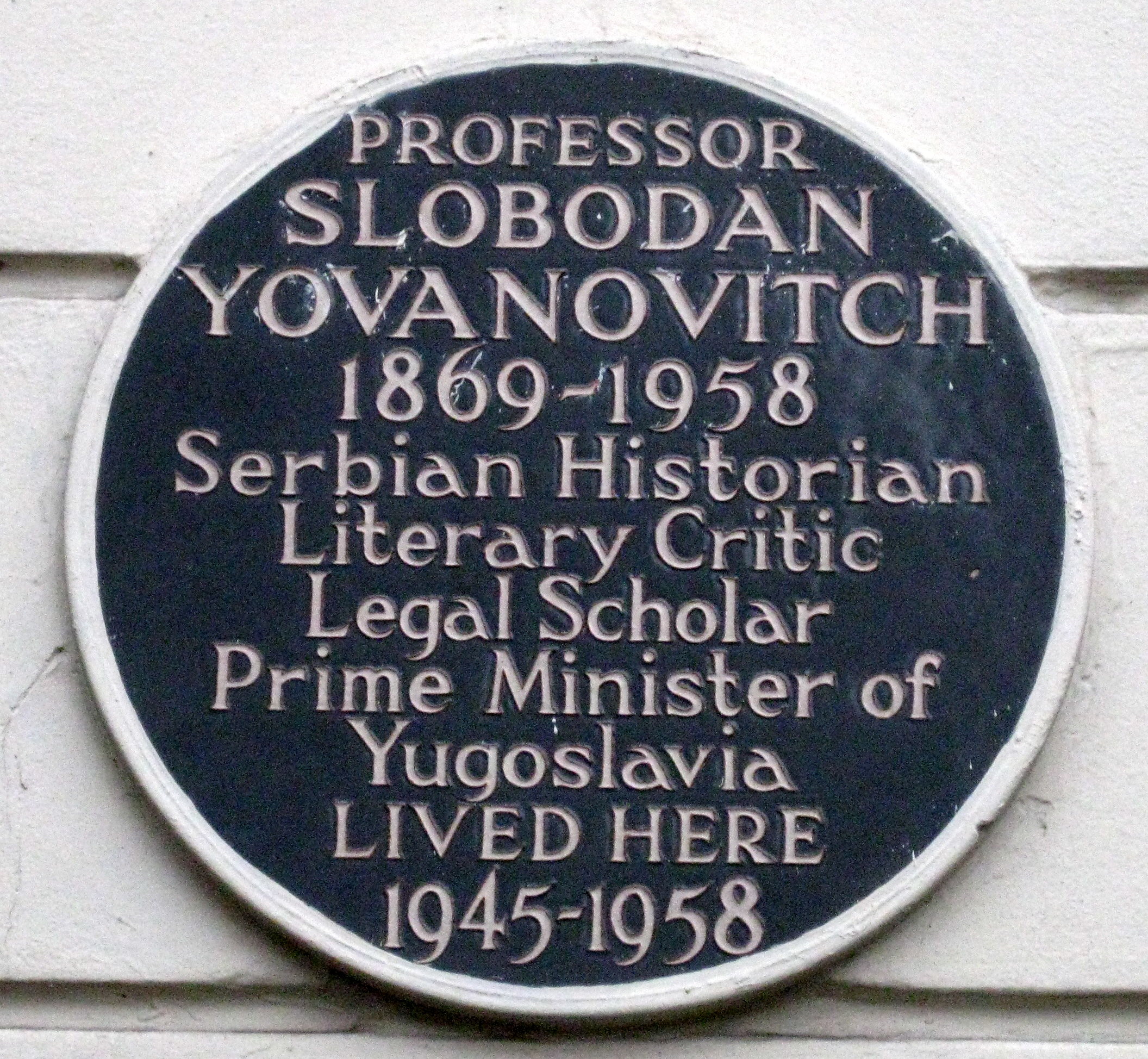 Plaque for Slobodan Yovanovitch (Slobodan Jovanović) at 39b Queens Gate Gardens, Kensington, London